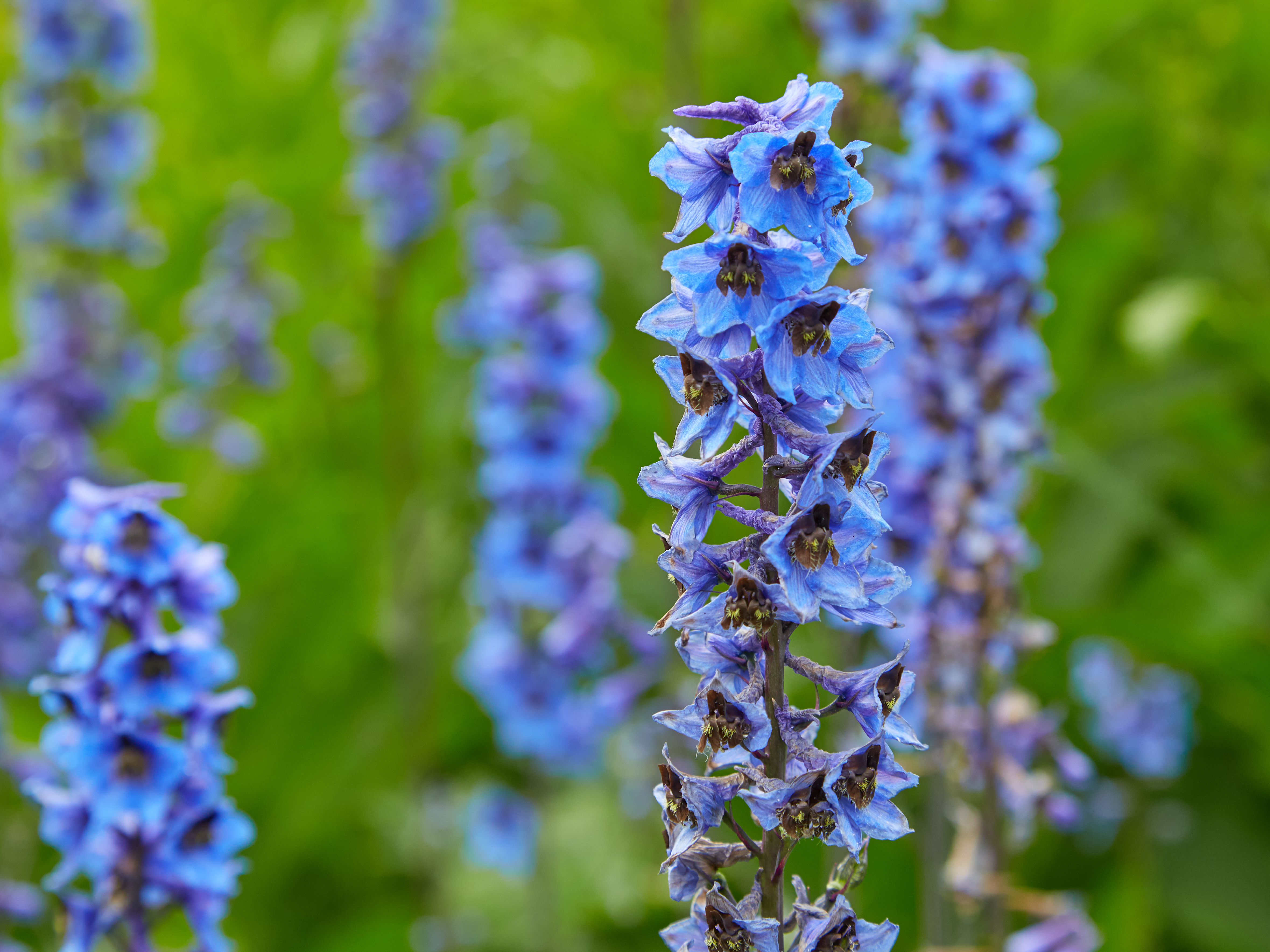 Delphinium elatum